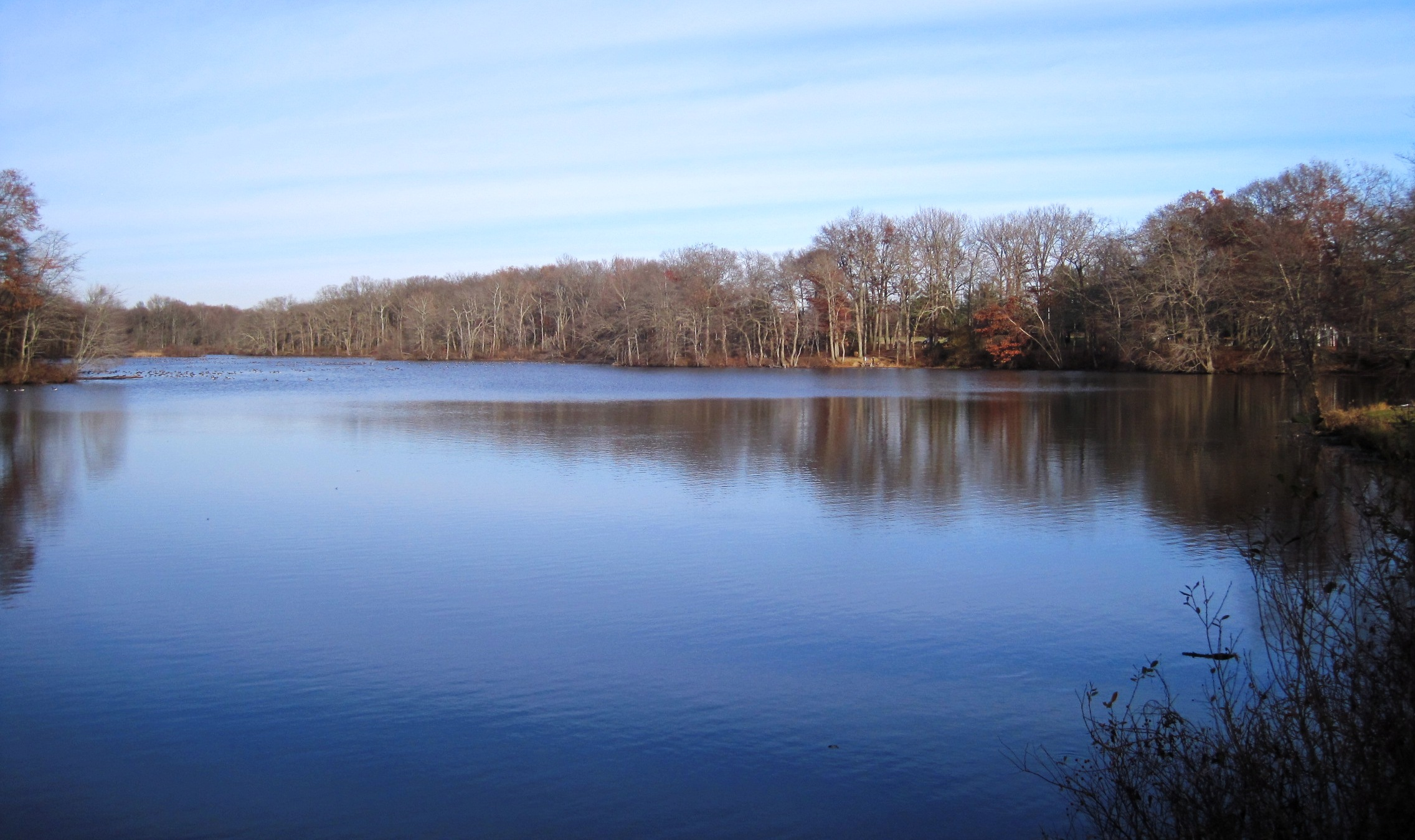 Photo of Etra Lake, part of Etra Lake Park in East Windsor Township, New Jersey. Photo looking northeast from a walking trail on the south side of the lake fronting Etra Road (County Route 571).